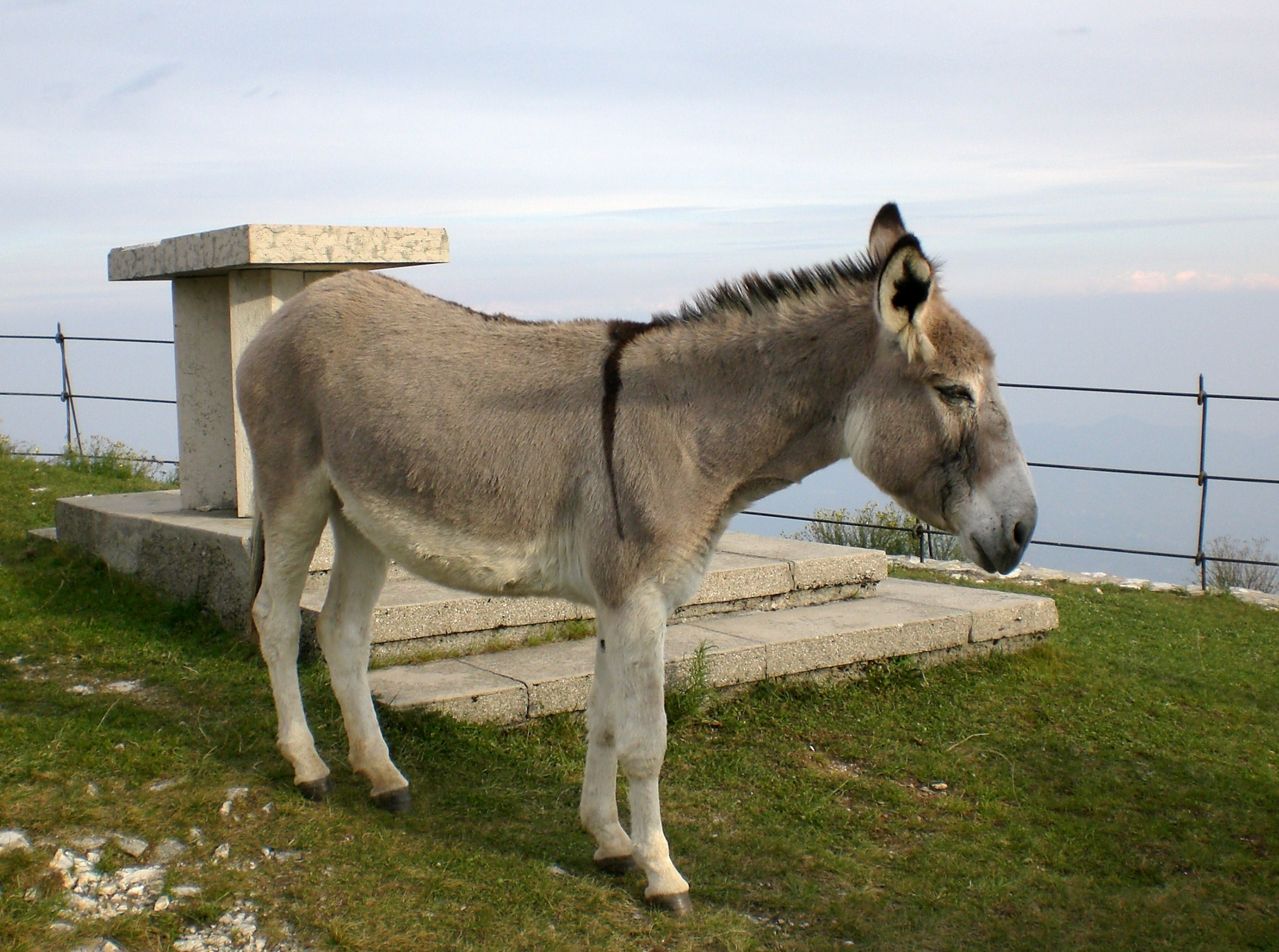 Mule on the Grappa mountains